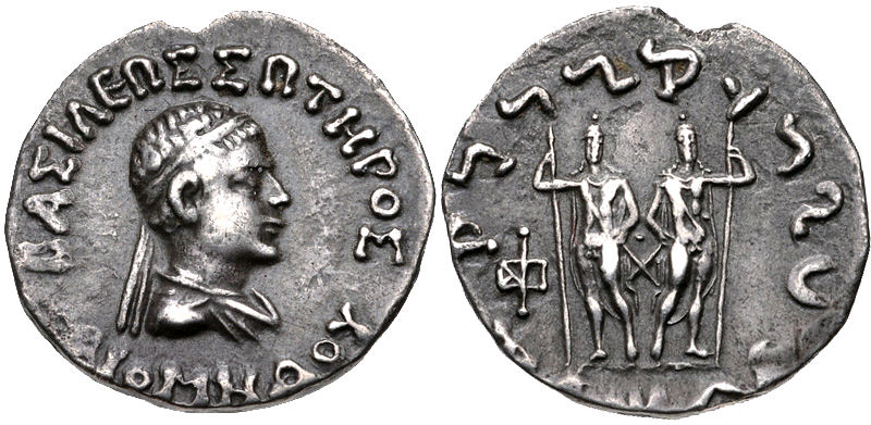 Diomedes round bilingual